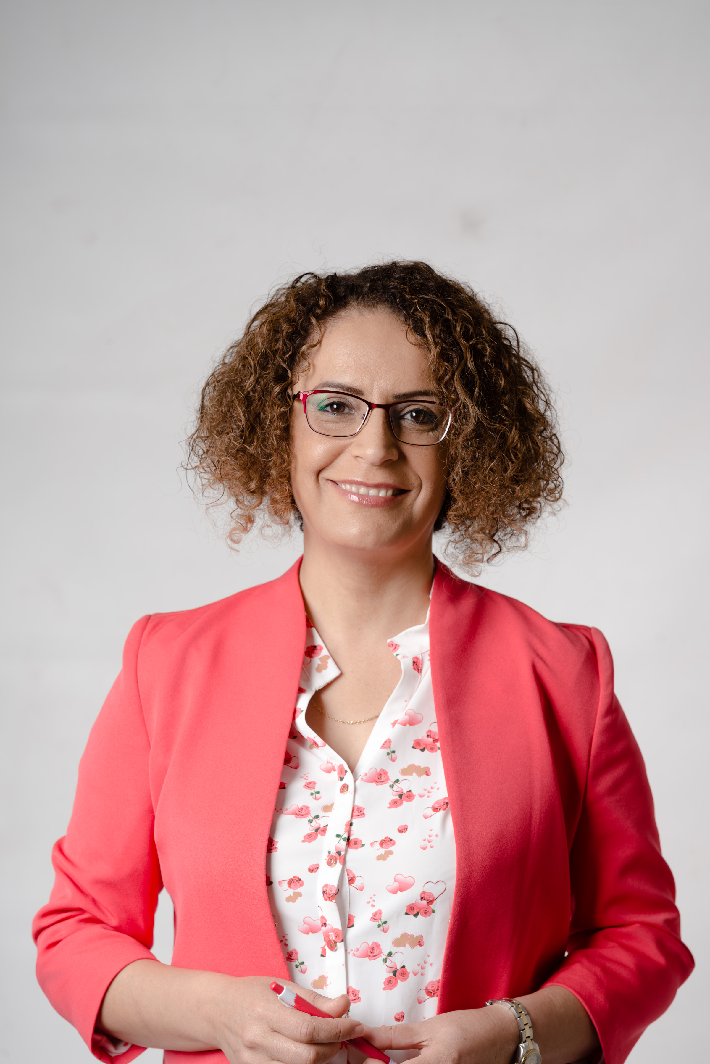 Depicted person: Majeda Awawdeh – Australian educator and author